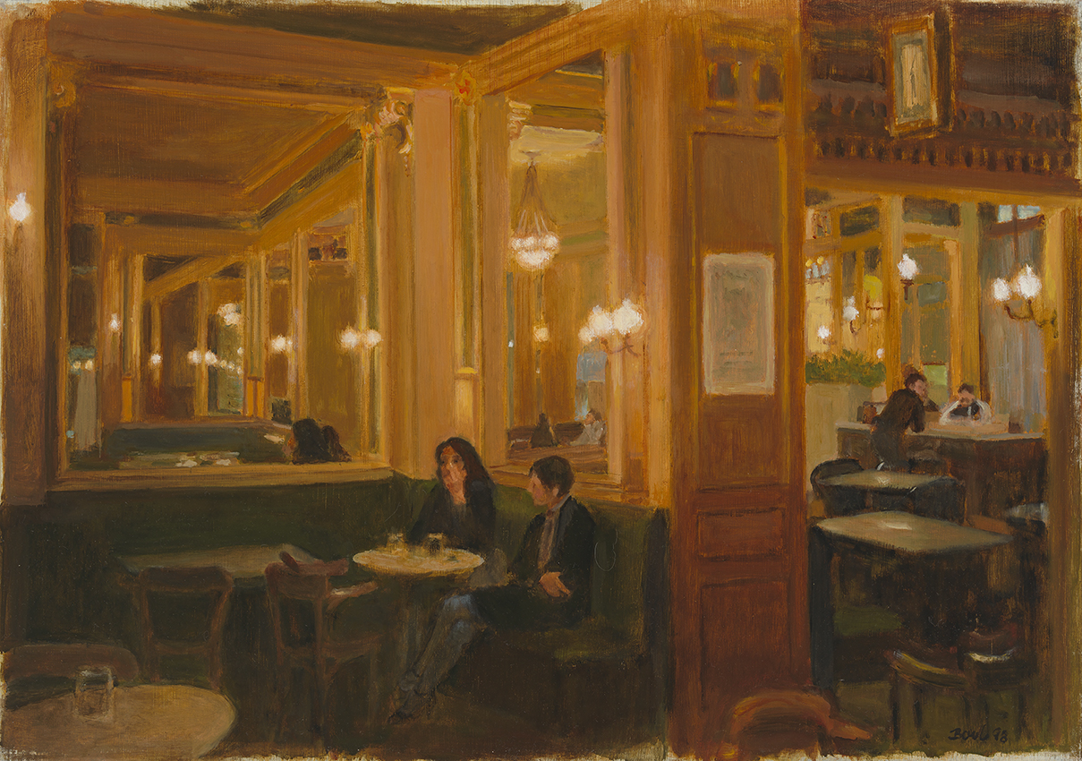 Cafe Scene